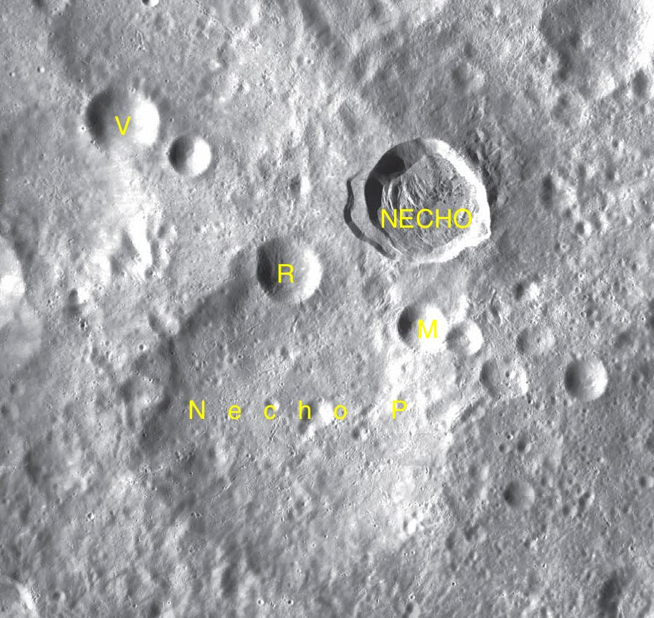 Part of the chart LAC-83 used for the presentation